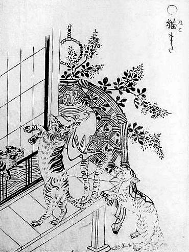 Nekomata, as illustrated by Toriyama Sekien. Nekomata walking on its hind legs, illustrated by Toriyama Sekien. Nekomata (猫股?) is a cat whose forked tail is a clue that it has become a dangerous supernatural creature.